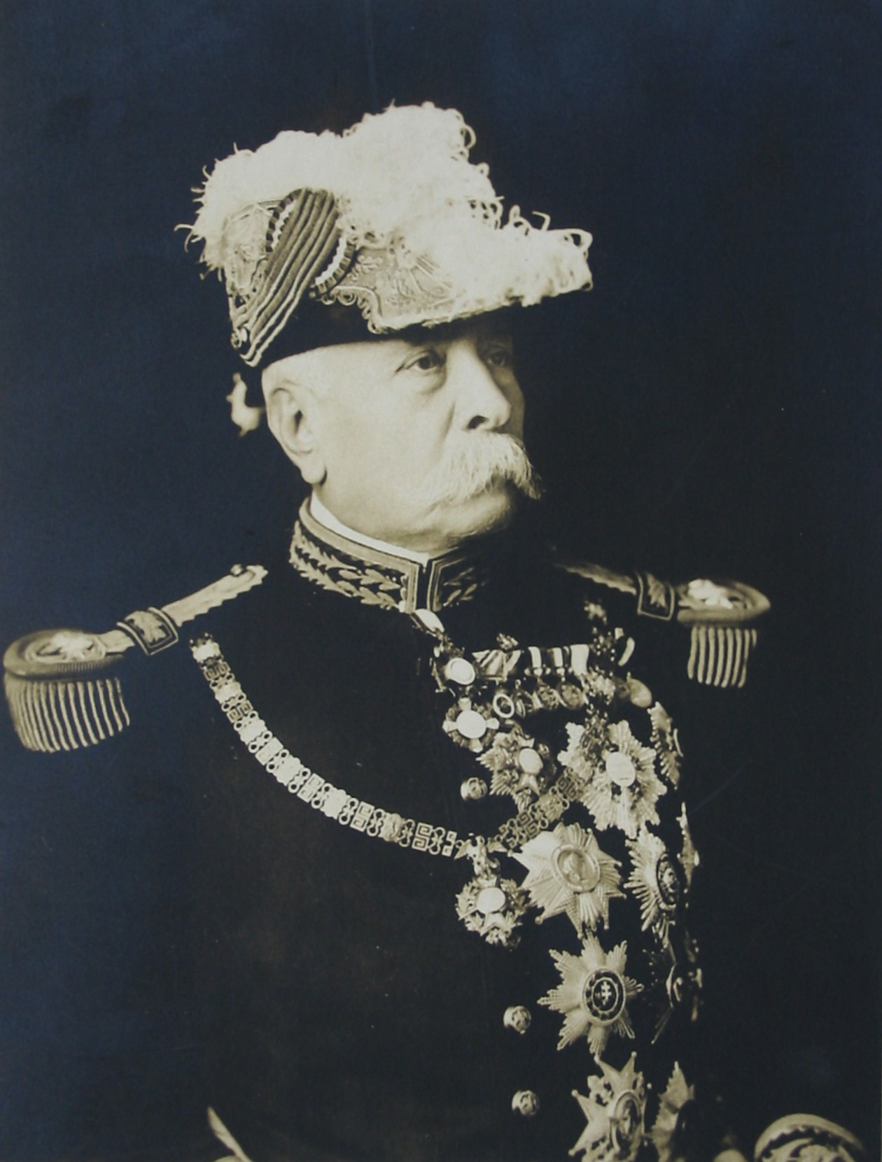 A Escobar C, digital Archive Mexico's hundred years of independece festivity, 1910; president Porfirio Díaz